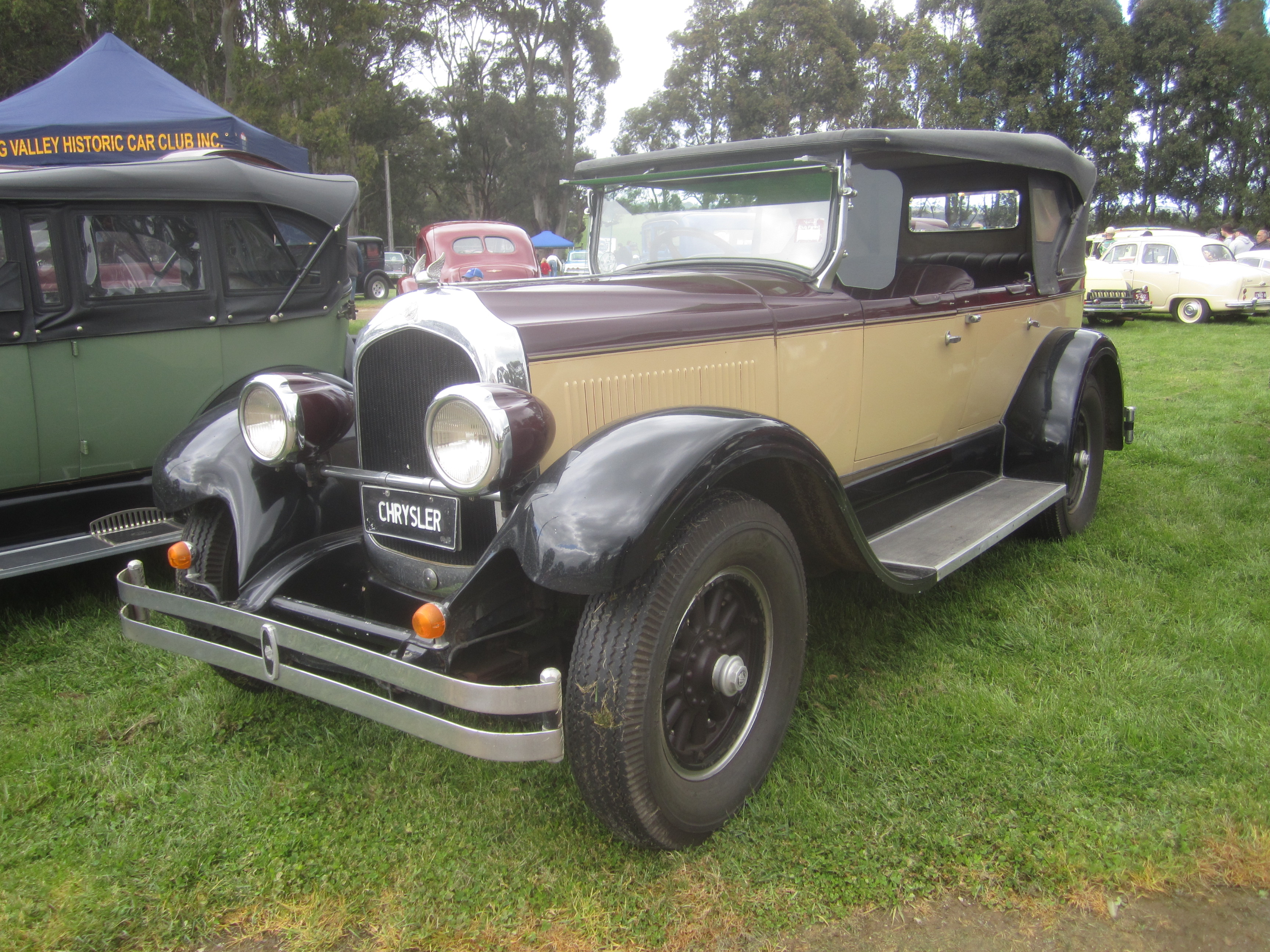 The Chrysler Imperial, introduced in 1926, was the company's top of the range vehicle for much of its history. Chrysler offered a variety of body styles: a 2 or 4 seat roadster(4 seat if car had the rumble seat), a 4 seat coupe, 5 seat sedan and phaeton, and a 7 seat top of the line limousine Engine; 288 cu in 6 cyl